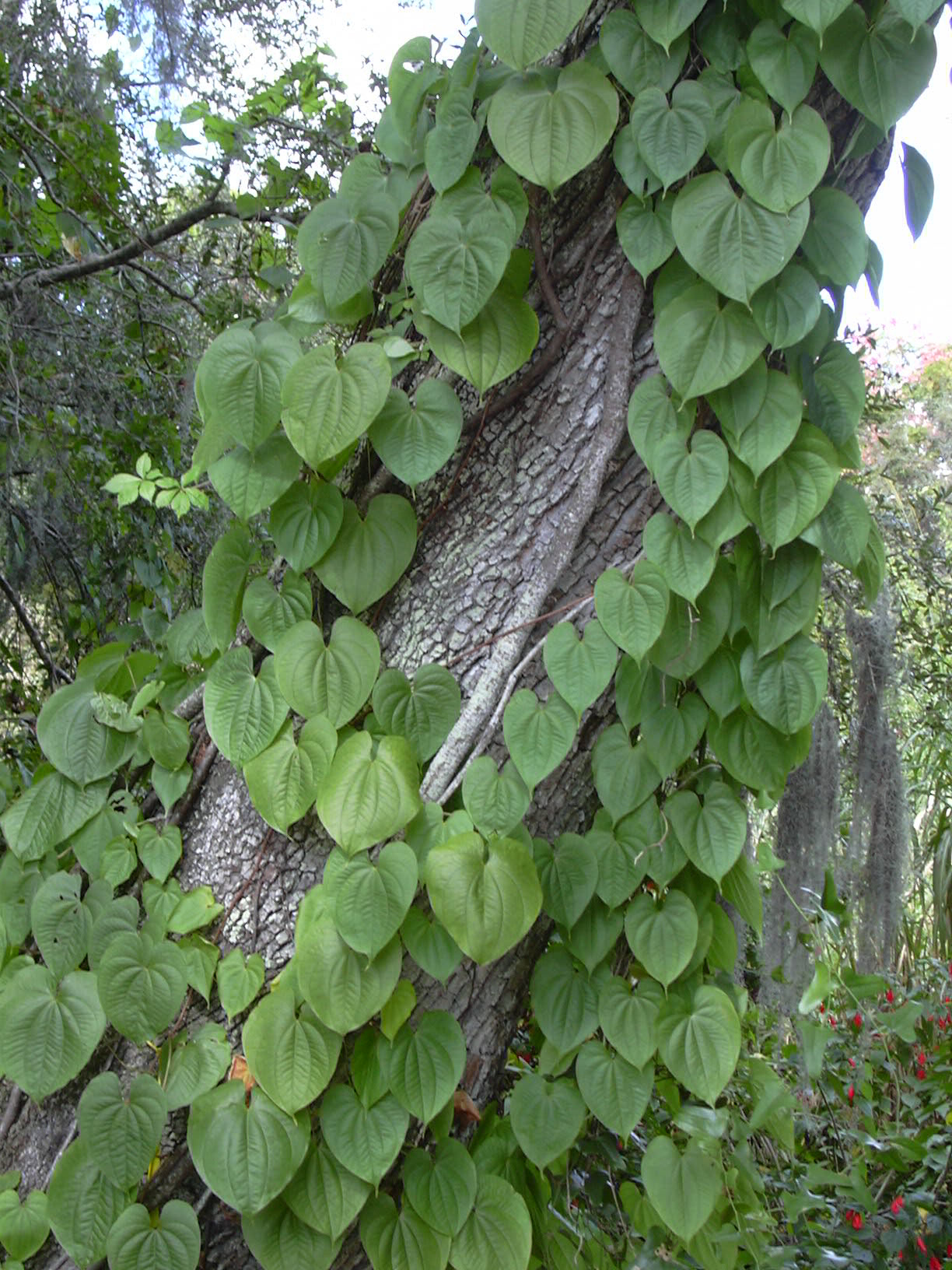 Dioscorea bulbifera (habit). Location: Florida, Sarasota